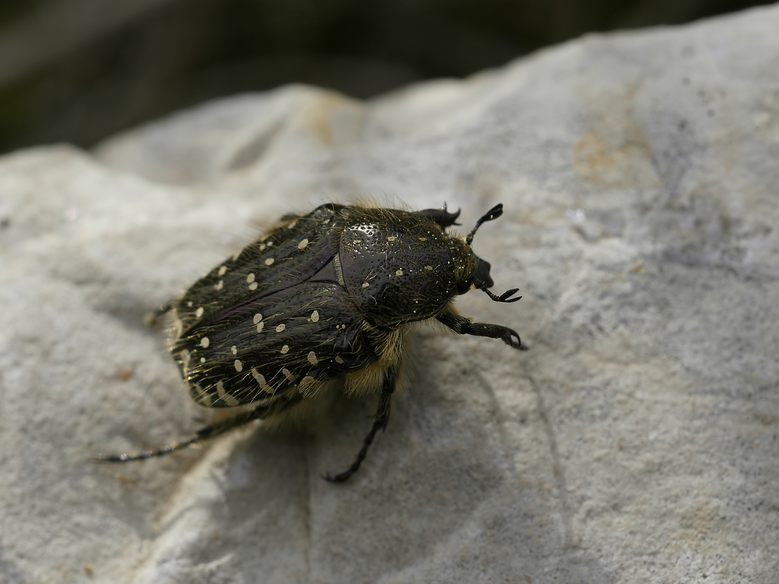 Near el Perelló, Catalonia, Spain